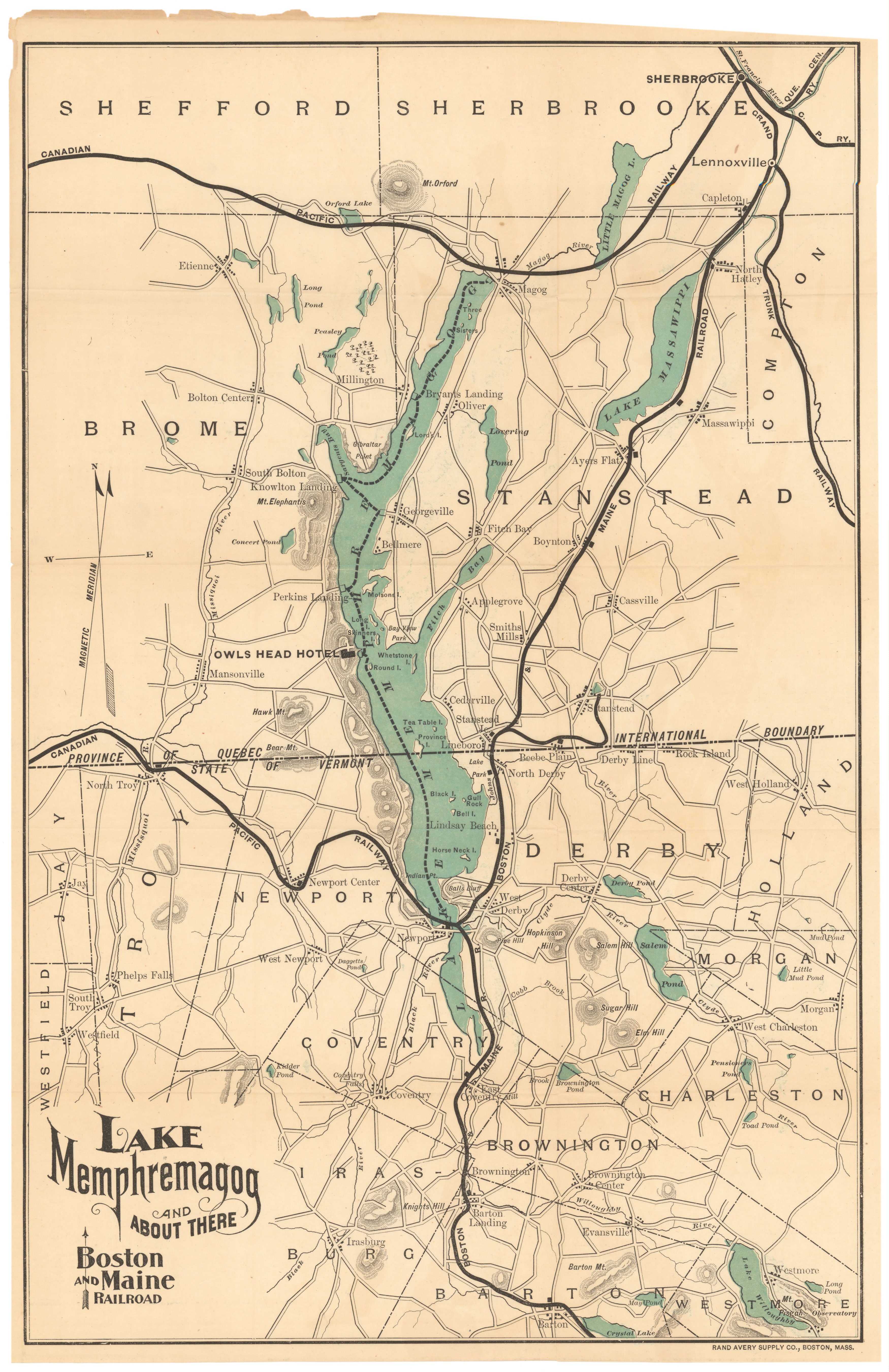 1901 map of Lake Memphremagog, including ferry and railroad lines